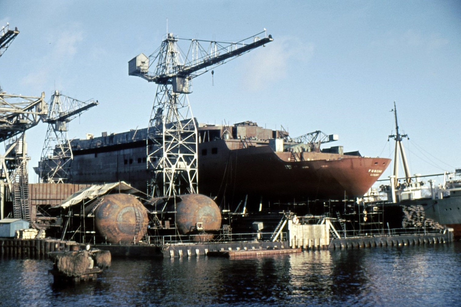 The cruise ship Funchal in construction at Helsingor on February 5, 1961.